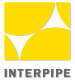 Logo of the Interpipe Group